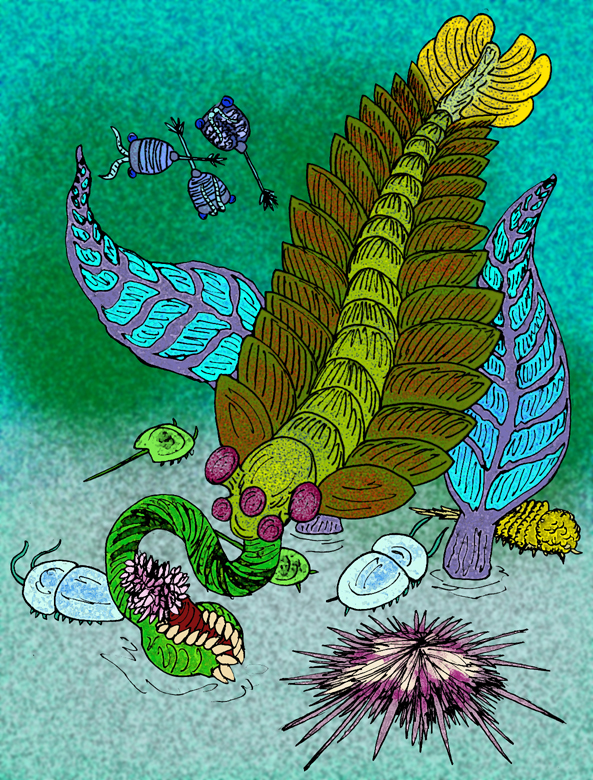 A graphic reconstruction (drawing) of Opabinia regalis, a surprising Cambrian fossil first identified on the basis of the famous Burgess Shale from British Columbia.